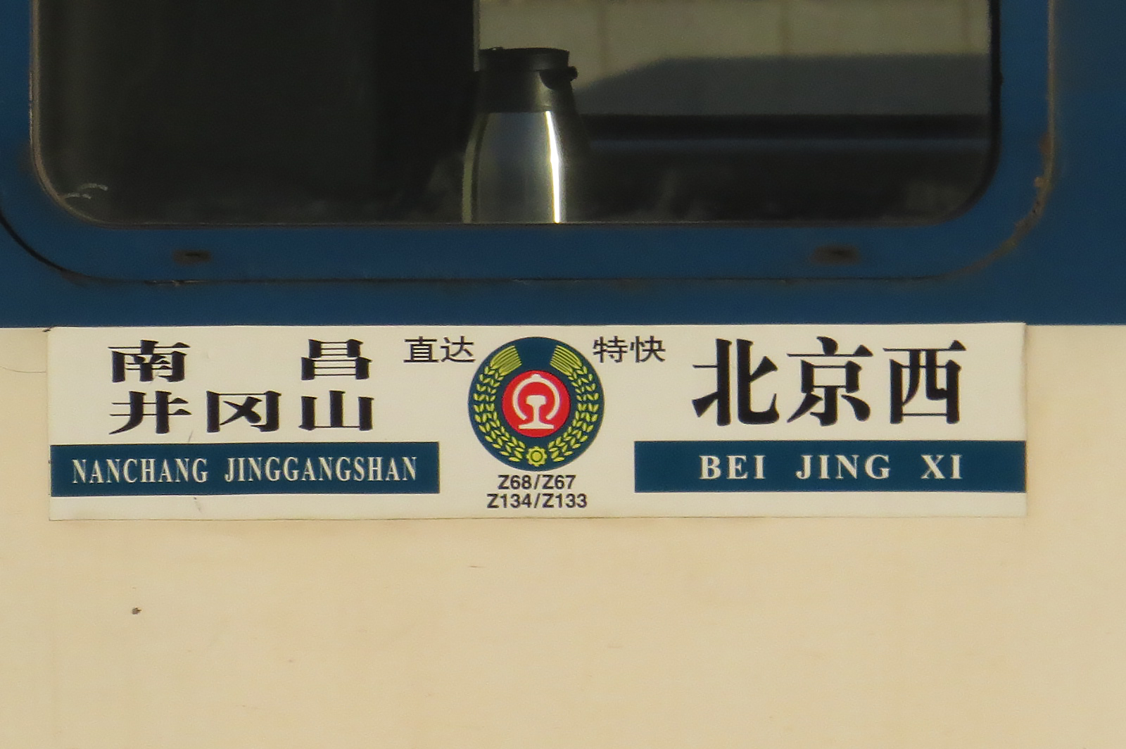 Jinggangshan train with CCB advert.